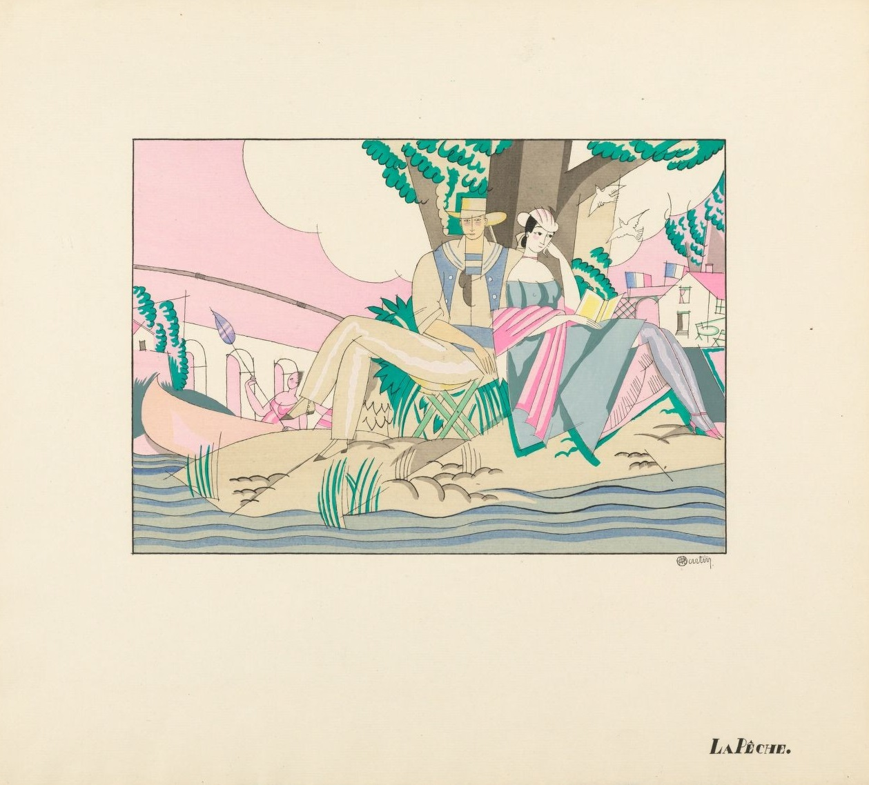 Illustration from Sports & divertisements, 1914, a collaborative art and music project by Charles Martin (1884-1934) and Erik Satie (1866-1925). Houghton Typ 915.14.7700, Houghton Library, Harvard University